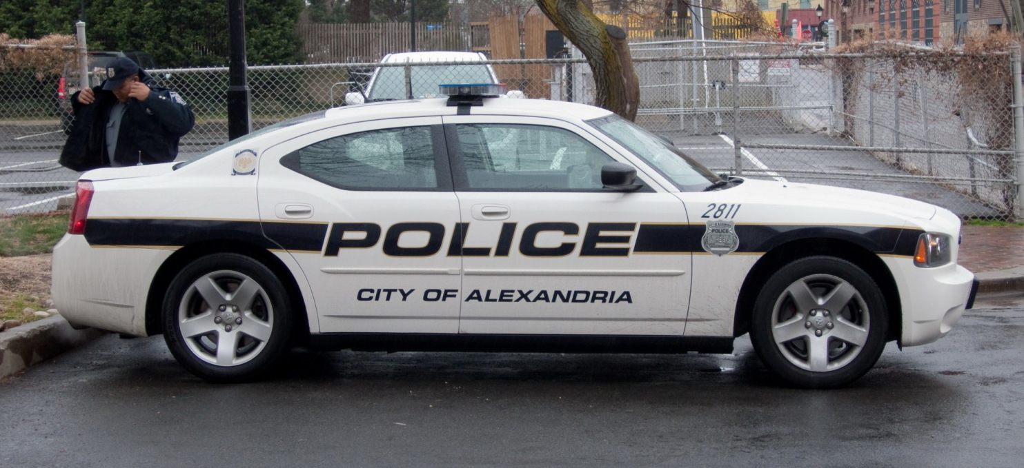 The mission of the Alexandria Police Department is to provide competent, courteous, professional and community oriented police services. We are committed to maintaining and enhancing a strong and productive partnership with the community to continue to reduce crime and improve the quality of life in all of Alexandria's neighborhoods. We are dedicated to protecting life and property while assuring fair and equal treatment to everyone. Alexandria maintains a modern, highly trained, technically skilled, energetic, diverse and well-equipped police department, with a current authorized strength of 320 sworn and 138 civilian employees. Our staff provides courteous, efficient and timely service to residents, visitors and businesses in our City. The Alexandria Police Department has been internationally accredited by the Commission on Accreditation for Law Enforcement Agencies (CALEA) since 1986 and was reaccredited in 1991, 1996, 2001, 2004 and 2007. This is a significant accomplishment for the men and women of the department. CALEA accreditation is a rigorous and difficult process that, if achieved, affirms the professional status of law enforcement agencies worldwide.